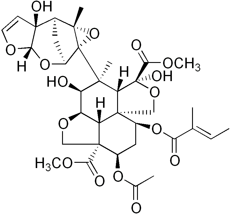 Chemical structure of azadirachtin created with ChemDraw